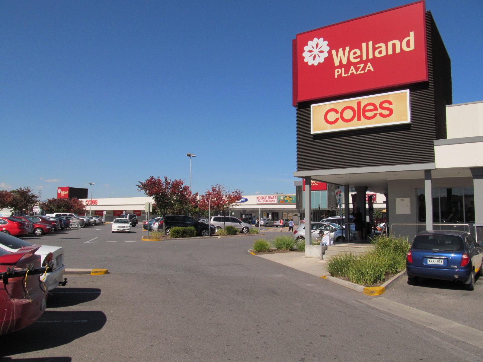 Exterior of Welland Plaza on Port Road, Welland, Adelaide.